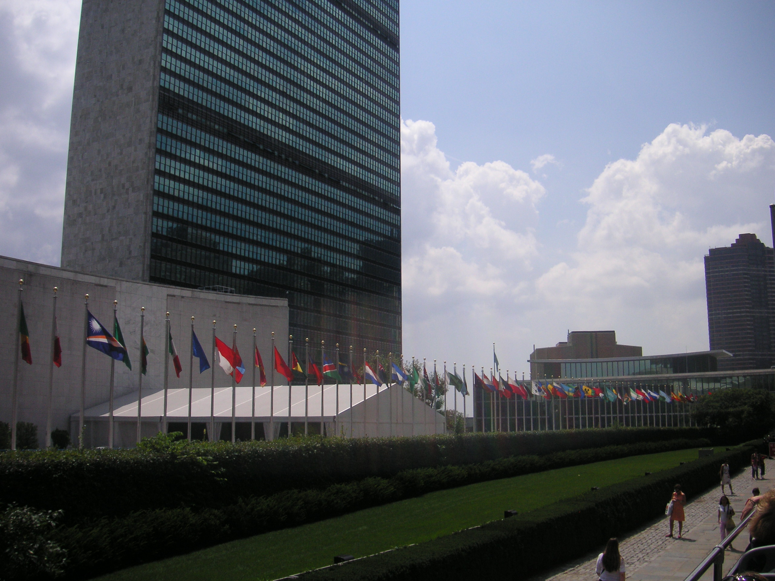 United Nations Building. New York City.